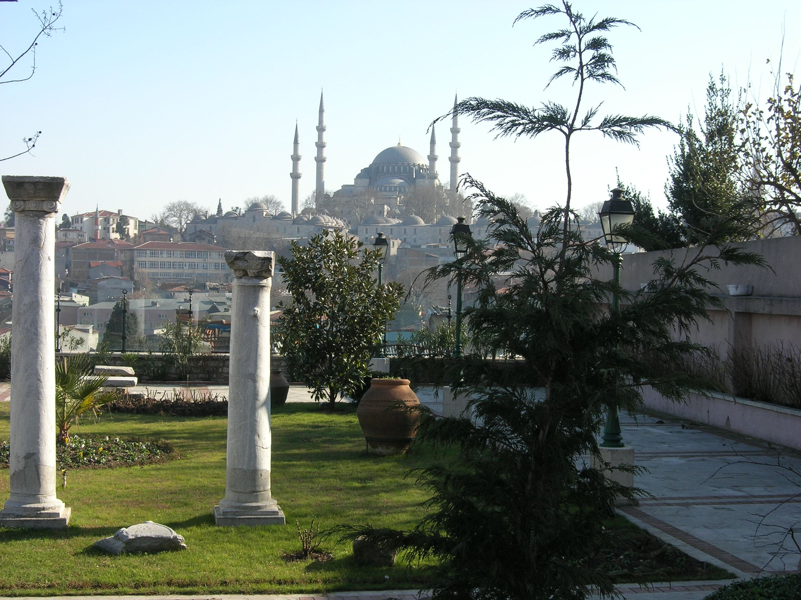 View from Zeyrek Hane in Istanbul towards S